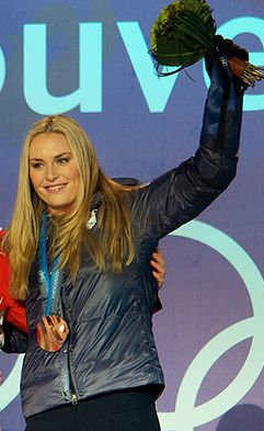 Bronze Medal for Lindsey Vonn. The Medal Ceremony at Whistler on Day 9 of the Vancouver 2010 Winter Olympics.